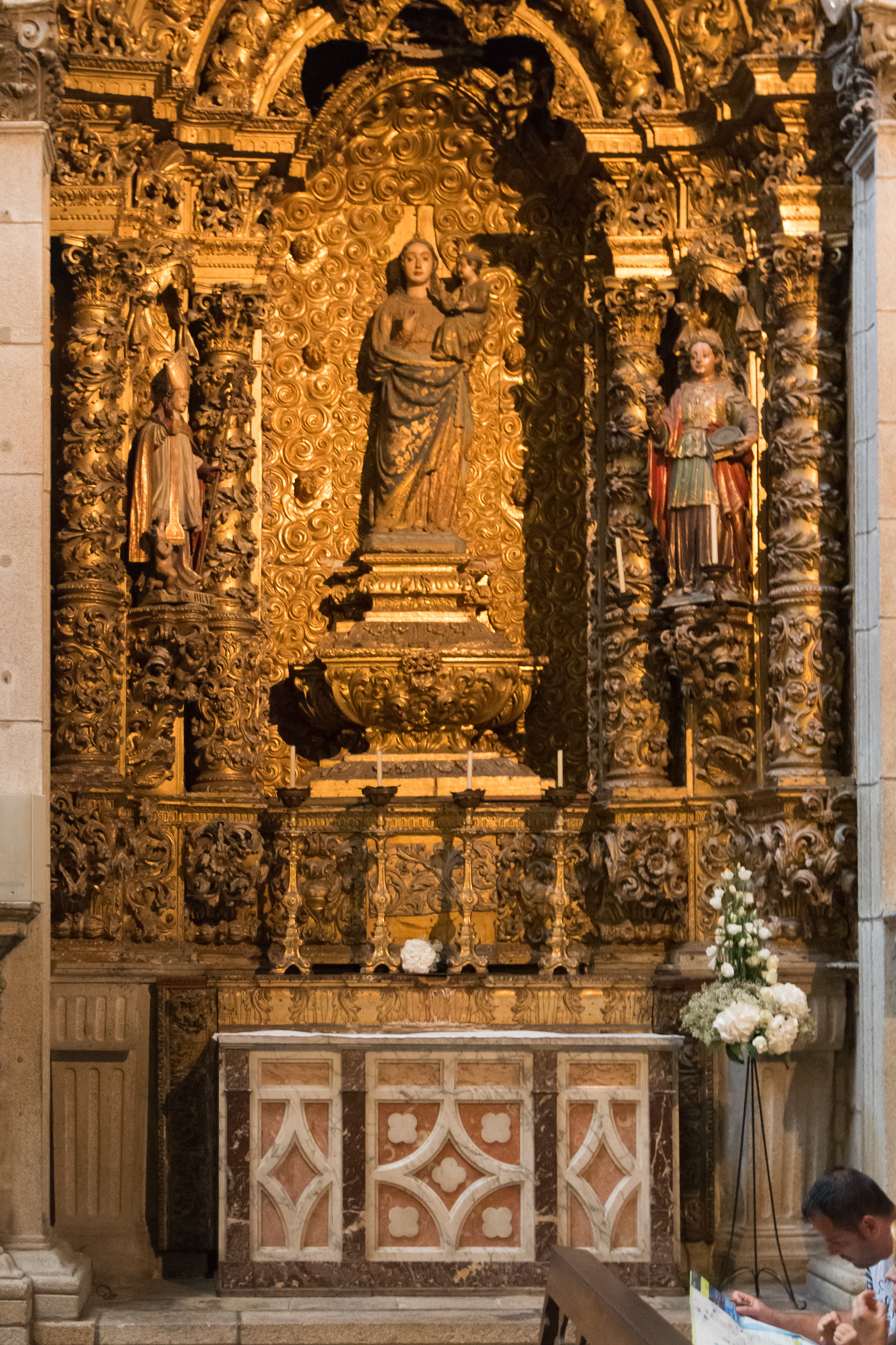 Altar and altarpiece of Our Lady da Silva.